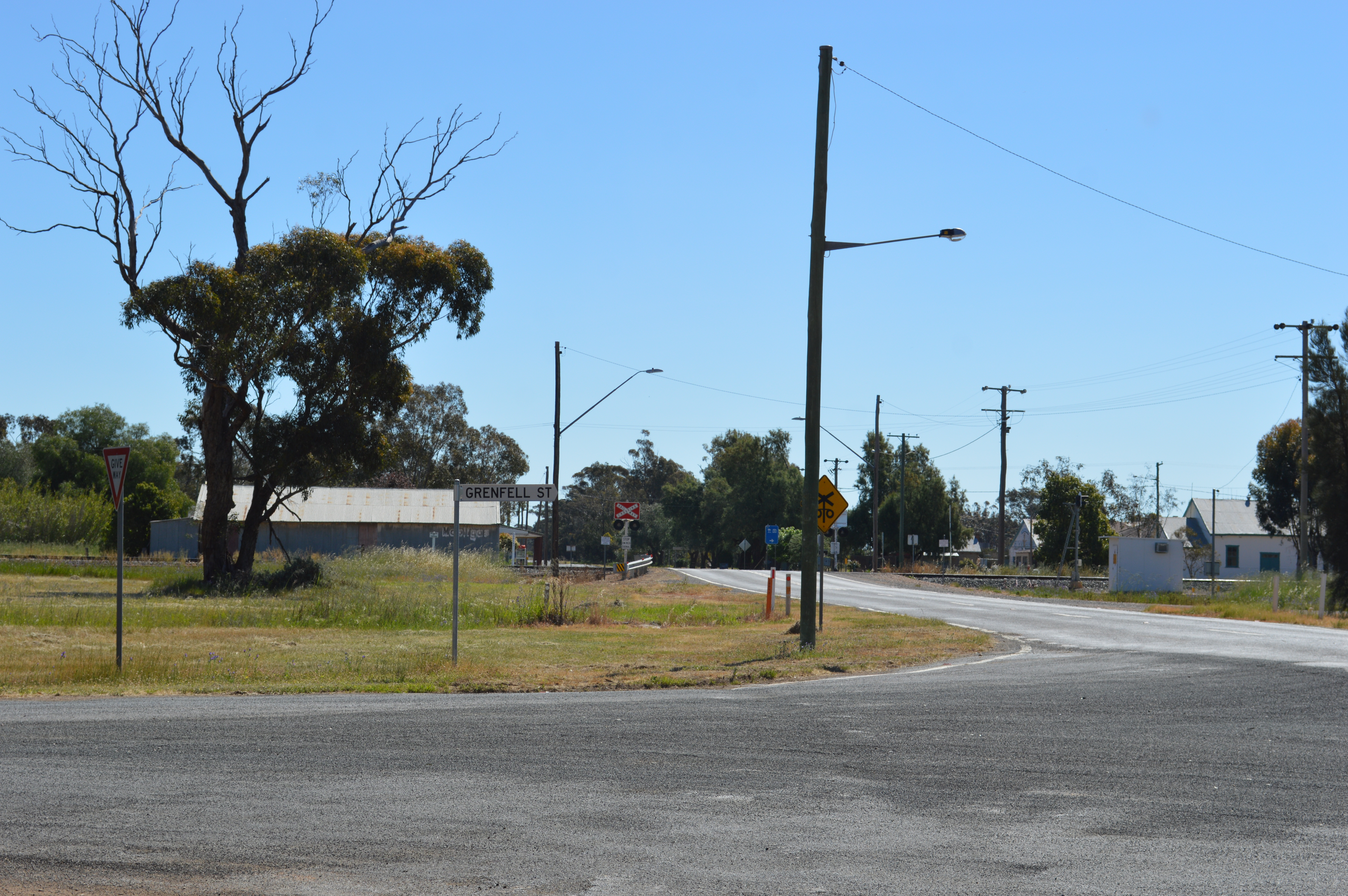 The Stockinbingal-Parkes railway line crossing the Mid Western Highway at Caragabal, New South Wales